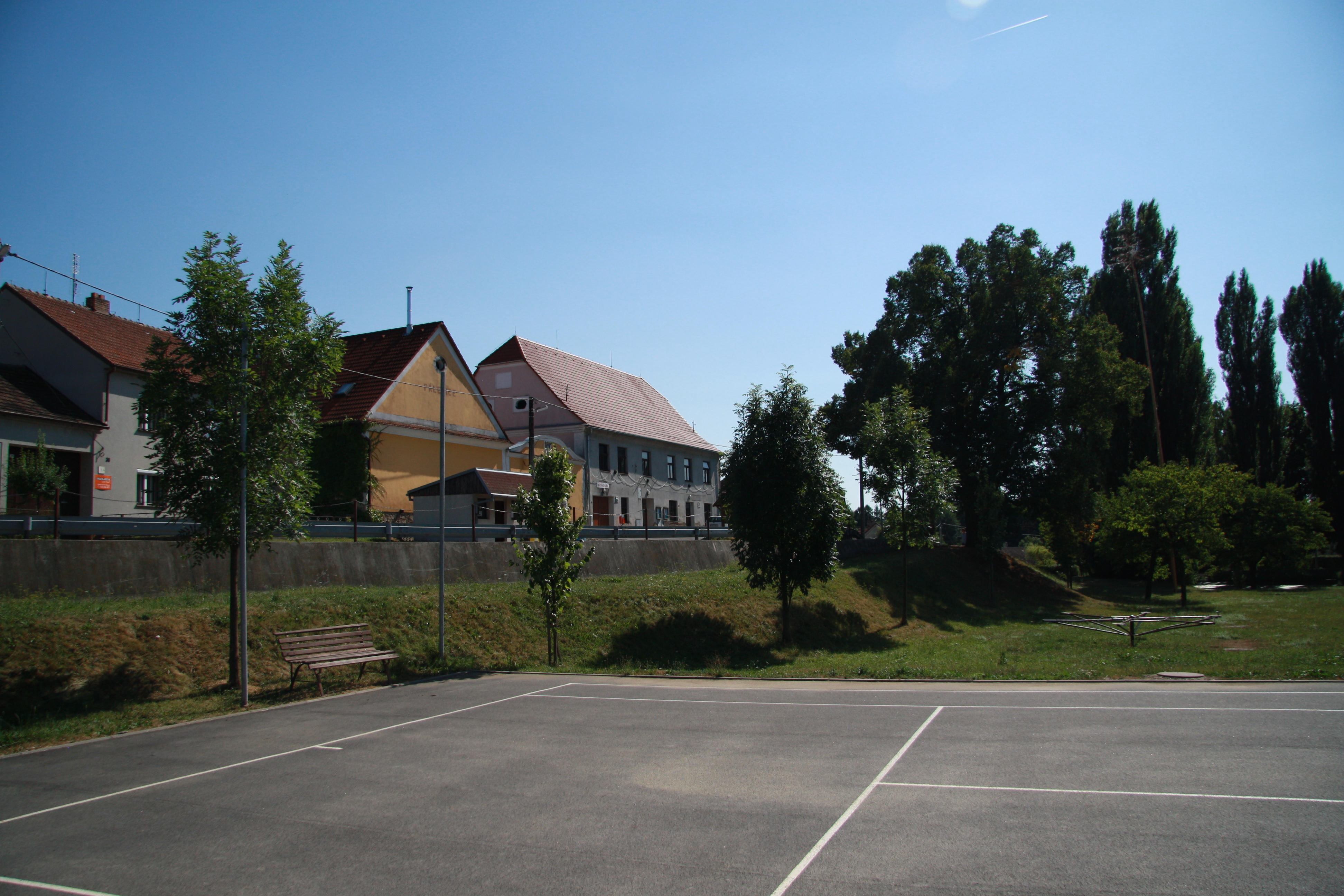 Center of Krnčice, Nové Syrovice, Třebíč District.